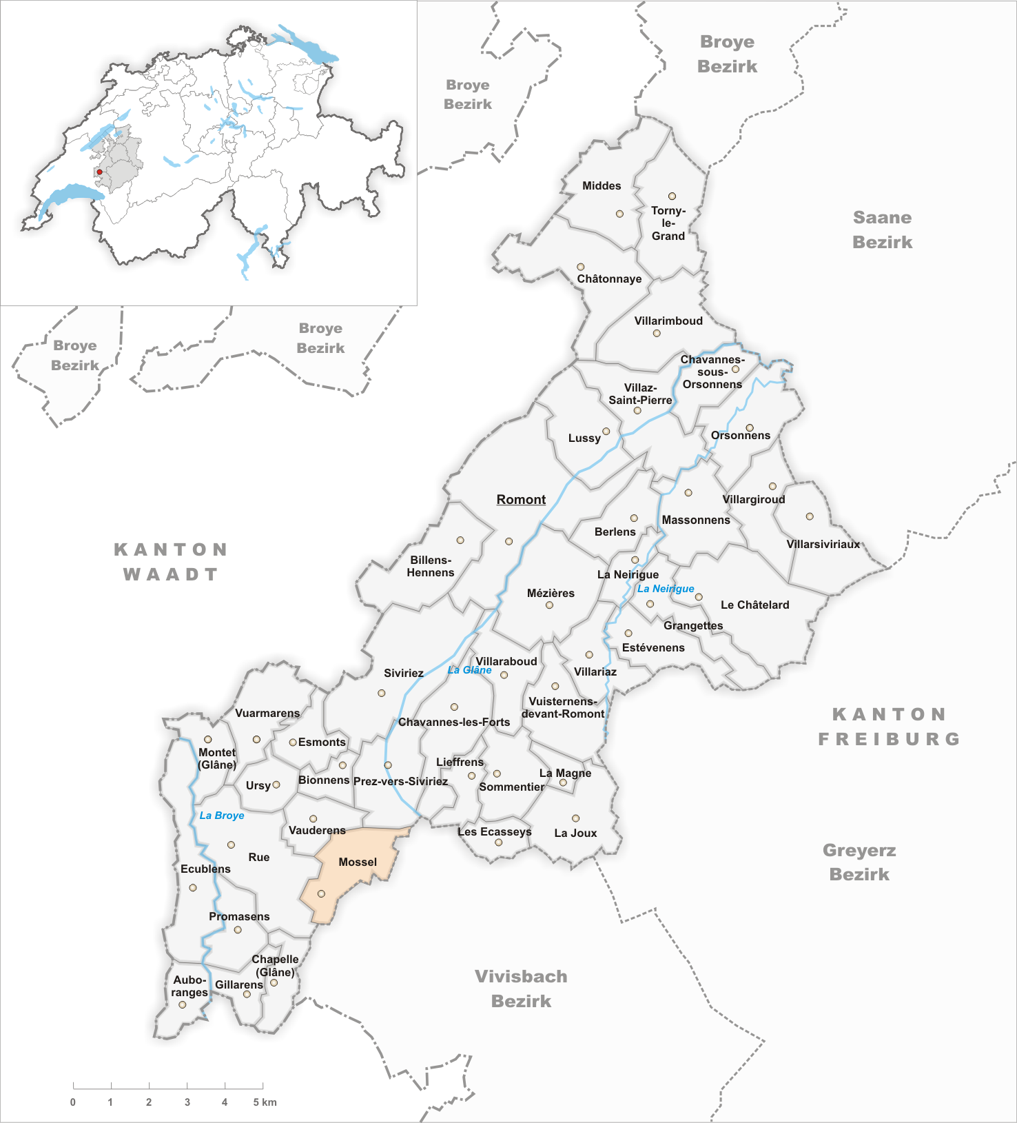 Municipality Mossel Artist: Tschubby